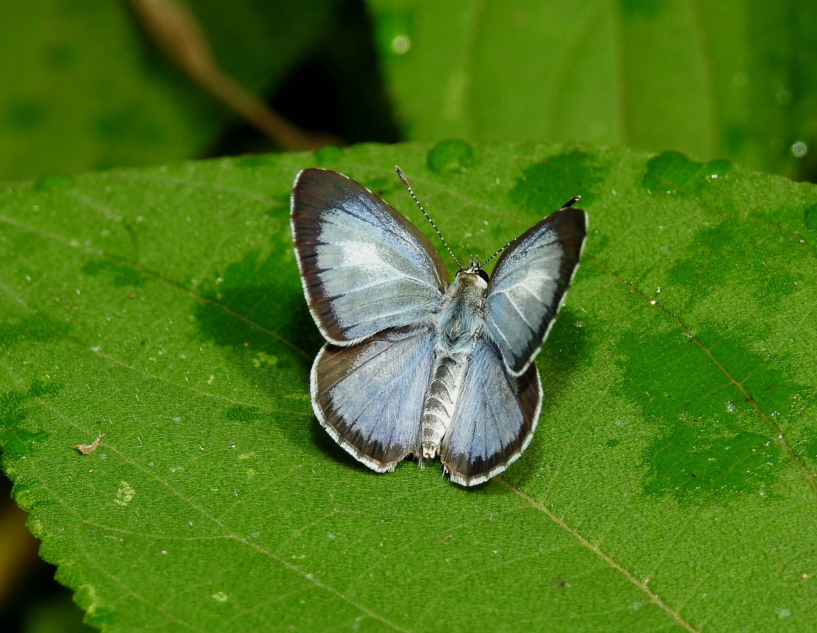 Common Hedgeblue Acytolepis puspa male. Photographed by Dr. Raju Kasambe at Udupi in in Udupi district, Karnataka.